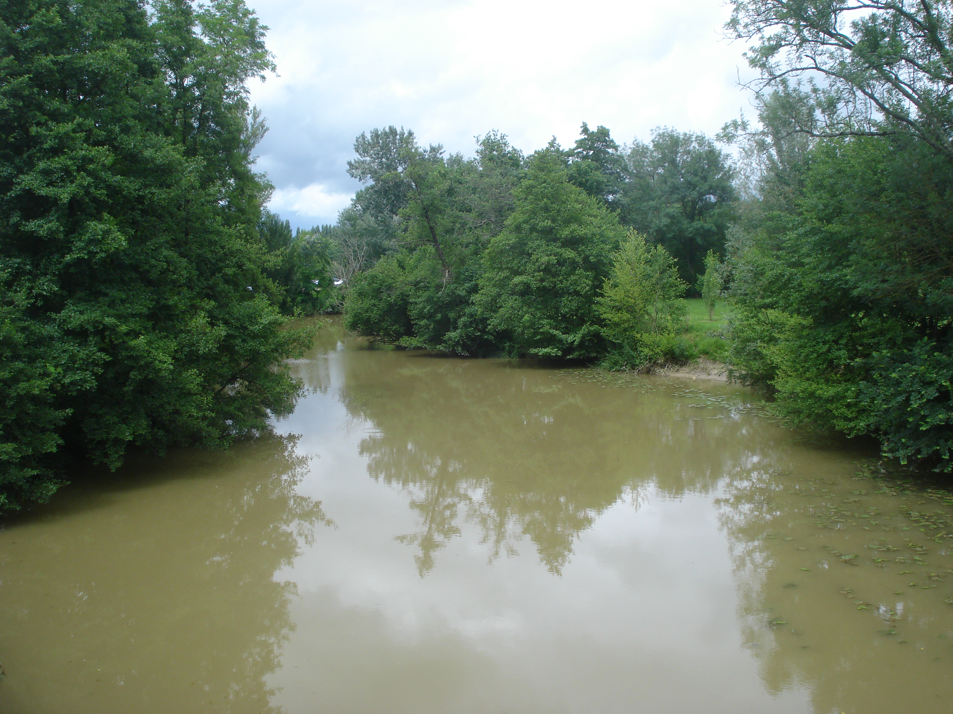 Dropt river at Monségur (Gironde, Fr)